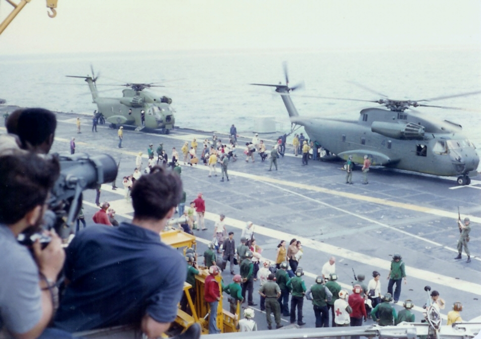 Refugees from South Vietnam debark U.S. Marine Corps Sikorsky CH-53 Sea Stallion helicopters on the flight deck of the U.S. Navy aircraft carrier USS Hancock (CVA-19) during Operation Frequent Wind, before the fall of Saigon.